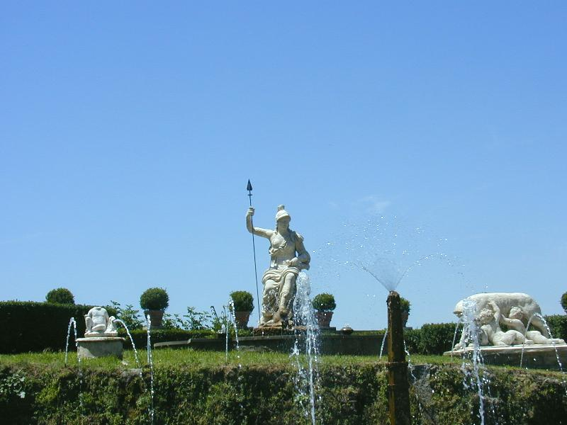 Tivoli, Villa d'Este Fountain of Rometta